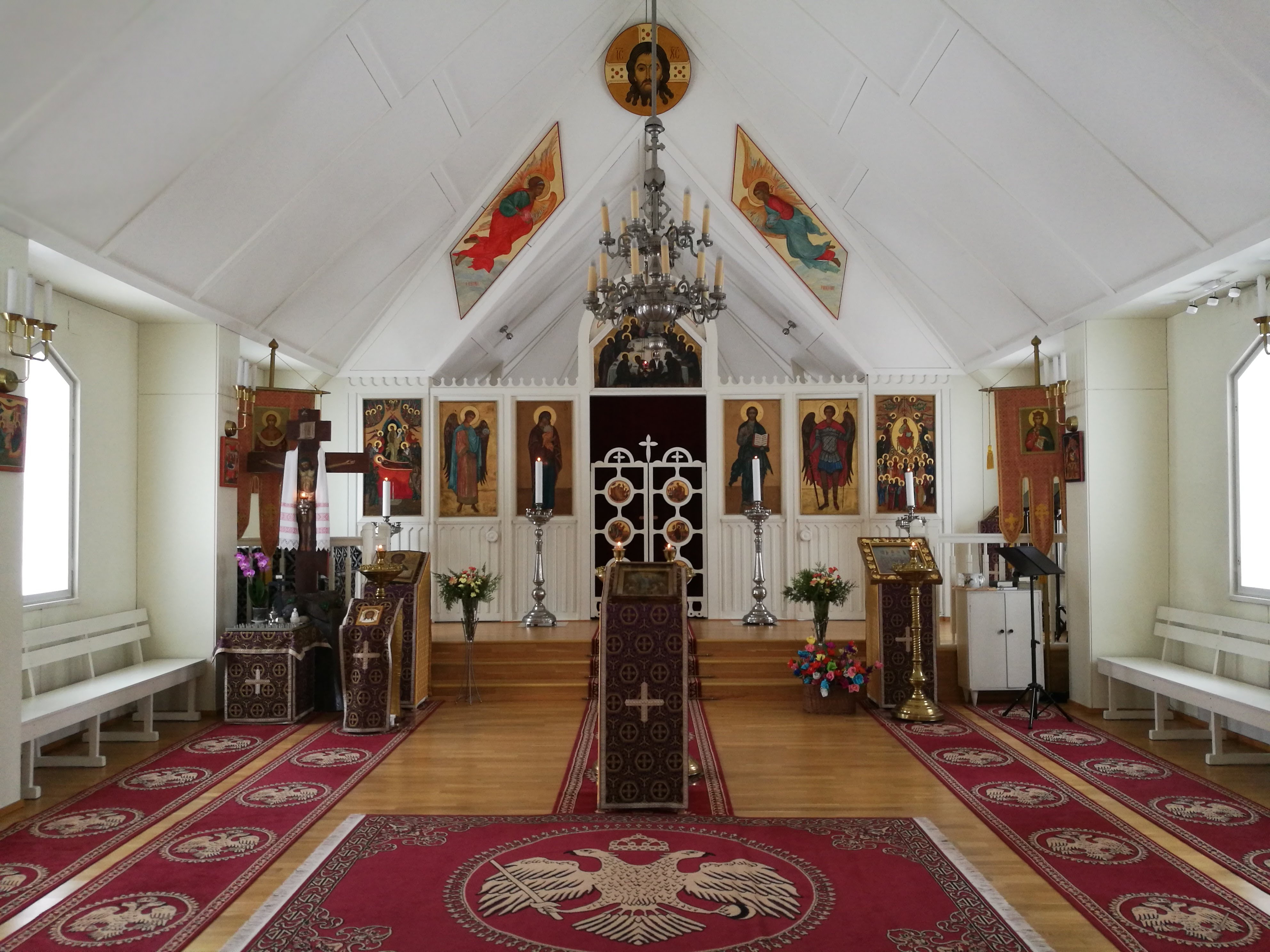 Lapinlahti All saints Orthodox Church from interior